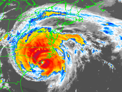 Hurricane Fran at landfall near Cape Fear in North Carolina on September 5, 1996. Image is a color-enhanced IR scan from GOES-8.